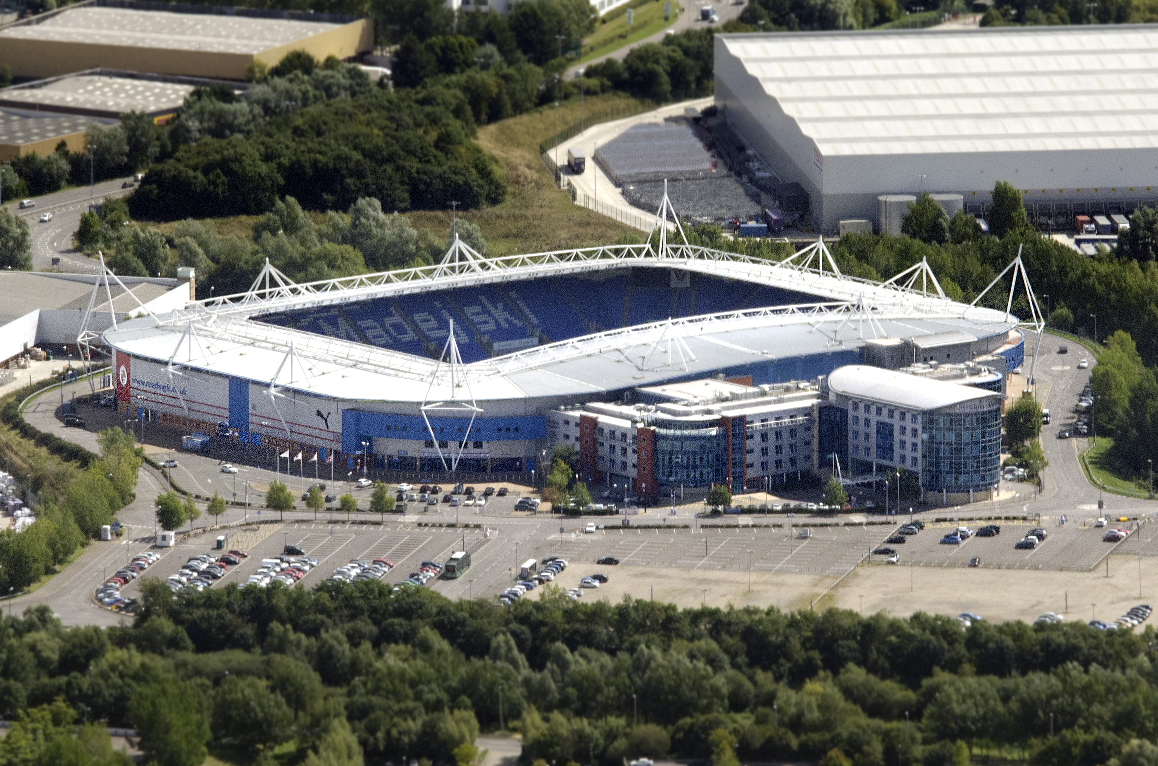 Reading Football Club, Madejski Stadium, Reading, Berkshire, RG2 0FL. Aerial